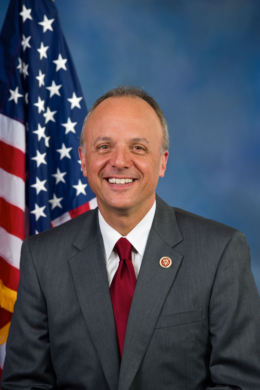 US Rep. Ted Deutch